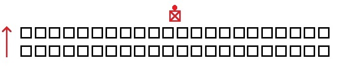 Military line formation